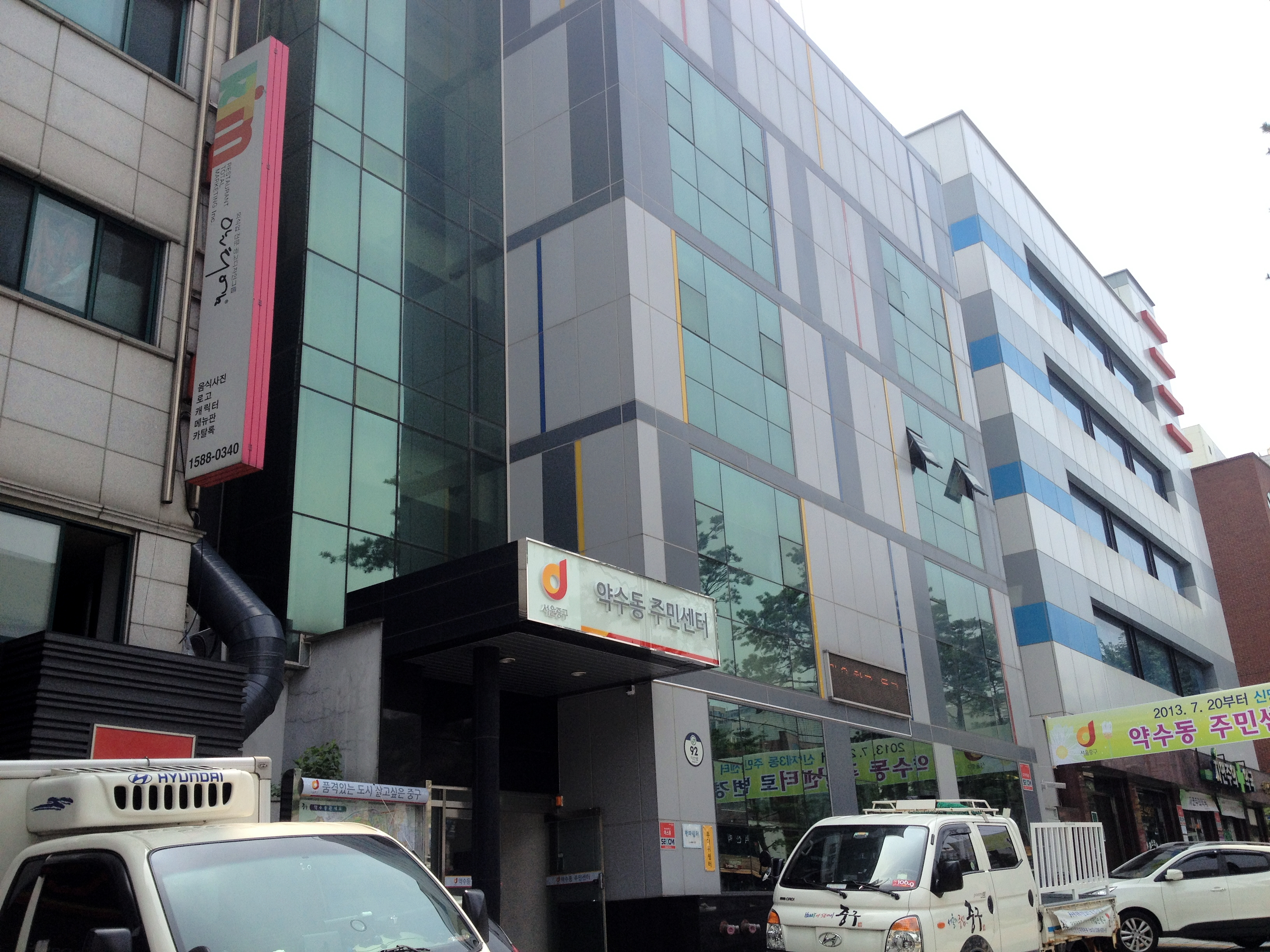 Yaksu-dong Community Service Center(Jung-gu)